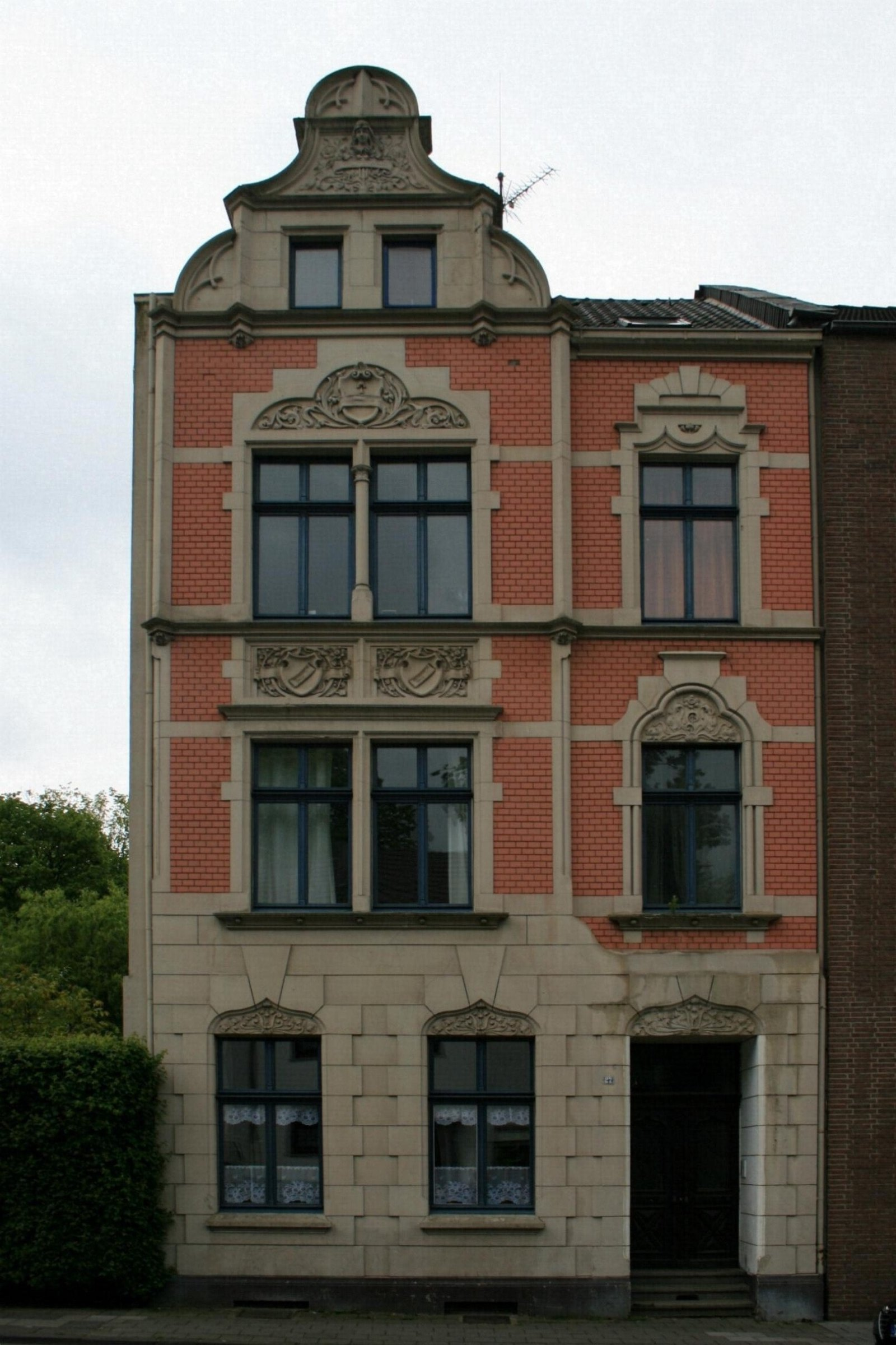 Cultural heritage monument No. G 029 in Mönchengladbach